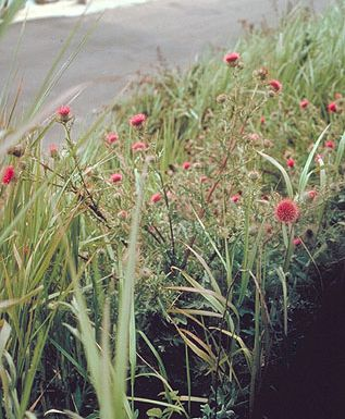 Cirsium andrewsii at the Presidio, San Francisco, CA, USA